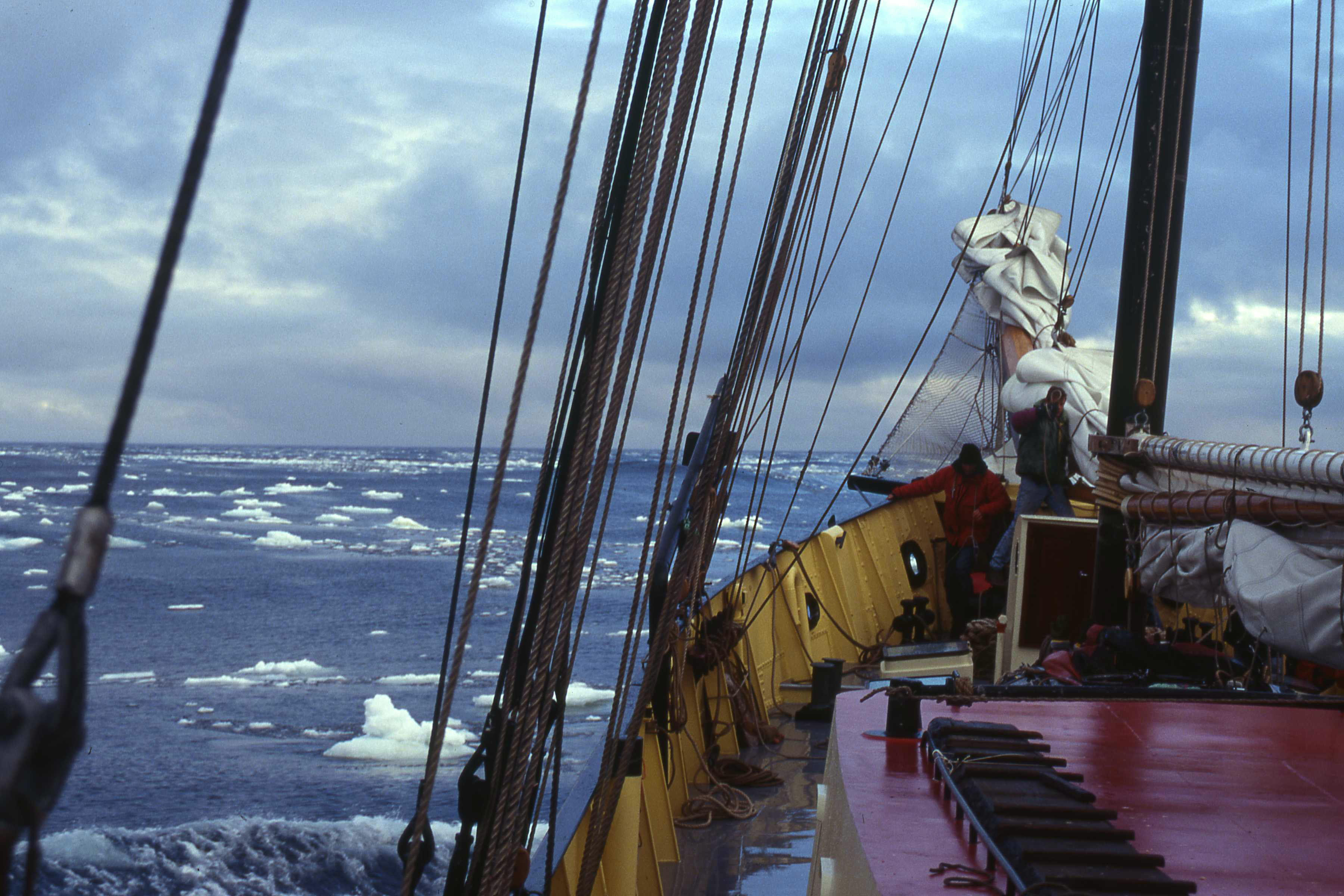 This ice is coming from fjords in Spitsbergen where ice breaks upp late spring. This is a navigation hasard and the sails are not used.